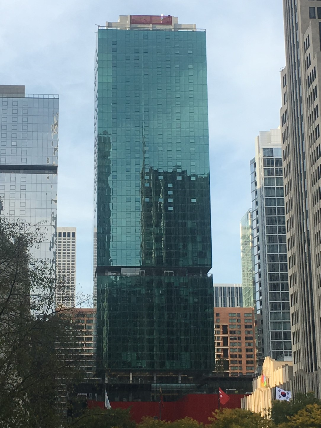 Optima Signature from inside my car on lower Wacker Drive